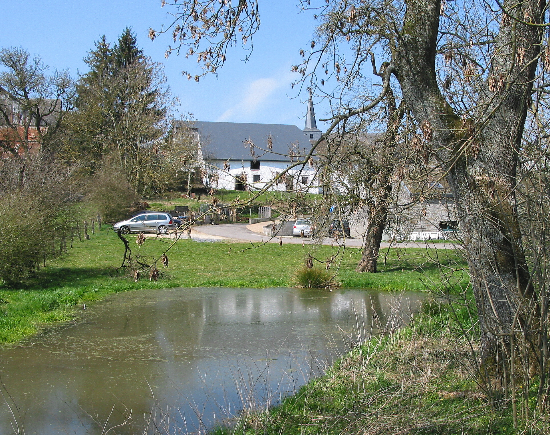 Bertogne (Belgium), the neighbourhood of the St. Lambert church.